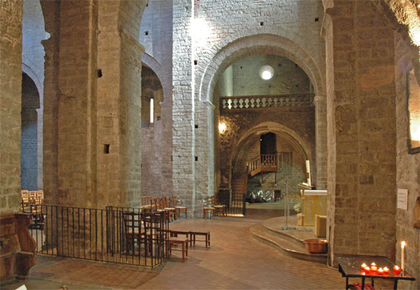 Saint-Guilhem-le-Désert, abbey. France